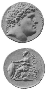 Coin struck during the reign of Eumenes I, dipicting the head of Philetaerus on the obverse and seated Athena on the reverse. From 1881 Guide to the Principal Gold and Silver Coins of the Ancients from circa BC 700 to AD1. Plate 37. Public Domain scans granted by ESnible from his site (July 10th 2004 agreement by e-mail). 06:46, 10 July 2004 PHG 199x384 (19393 bytes)